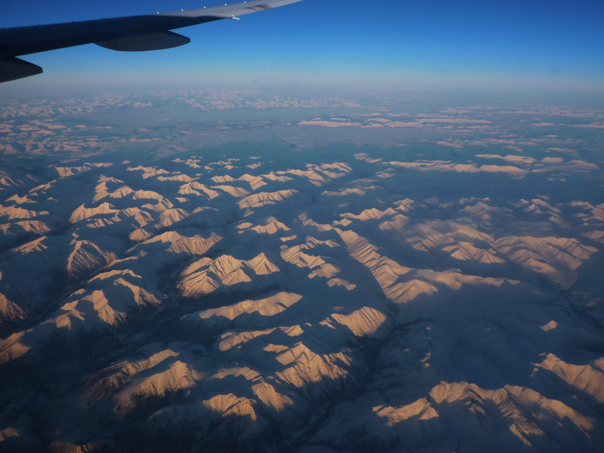 An aerial photo of the Ogilvie Mountains, with Mount Gibben just left of the center of the picture. Looking roughly north. Terrain apparently identified against Google Maps sat view. Picture taken from an AA plane on a non-stop ORD-PVG flight.